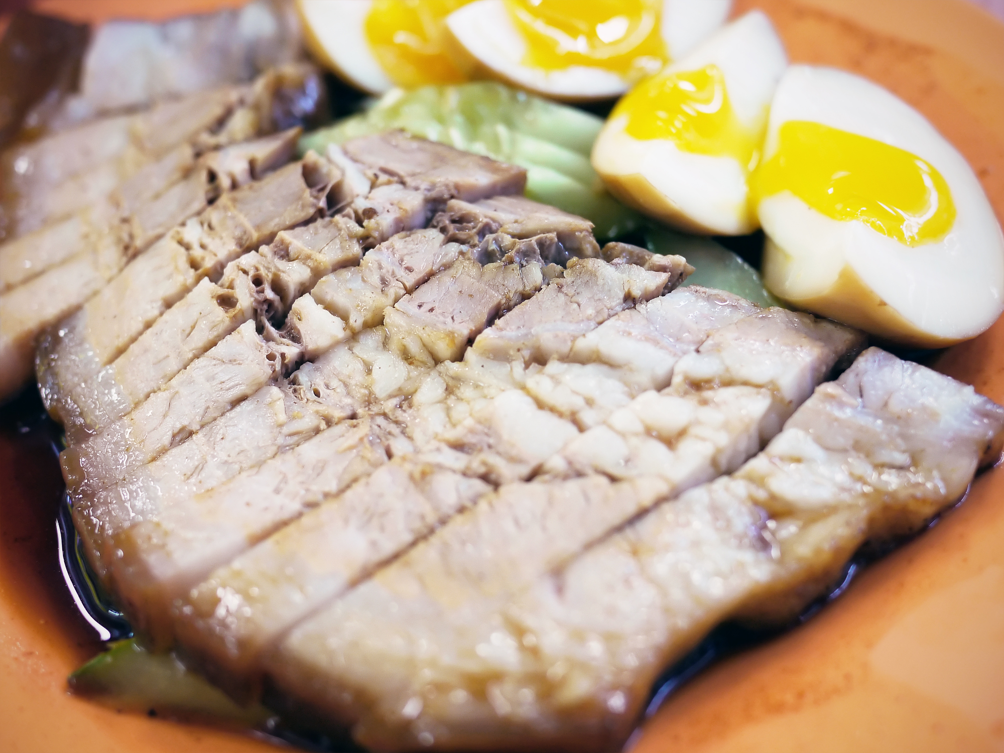 Braised Pork and Eggs Teo Heng Teochew Porridge Hong Lim Food Centre 02/06/2010